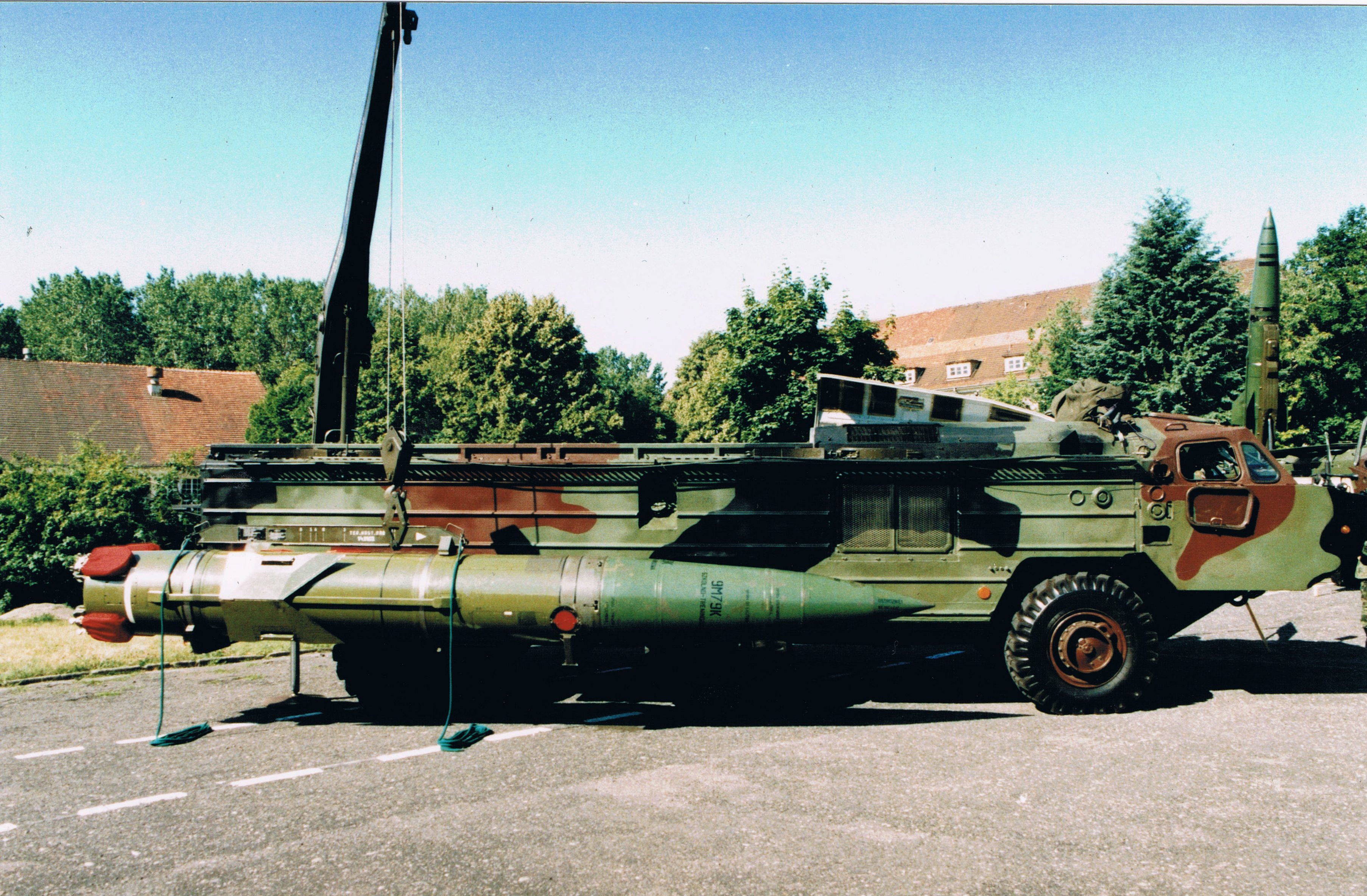 28.06.2003 - demonstration in Choszczno. Technical battery working.